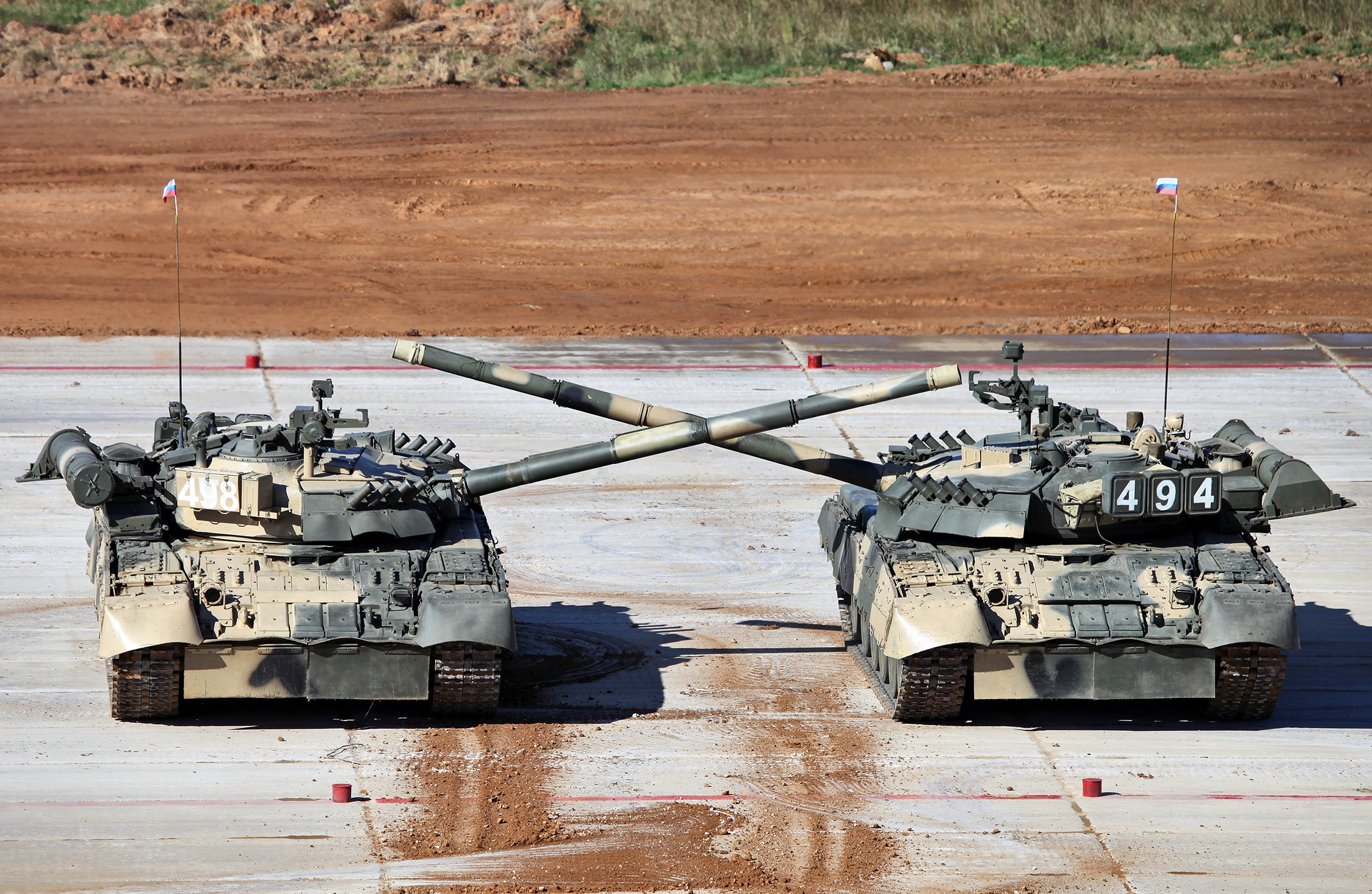 T-80U